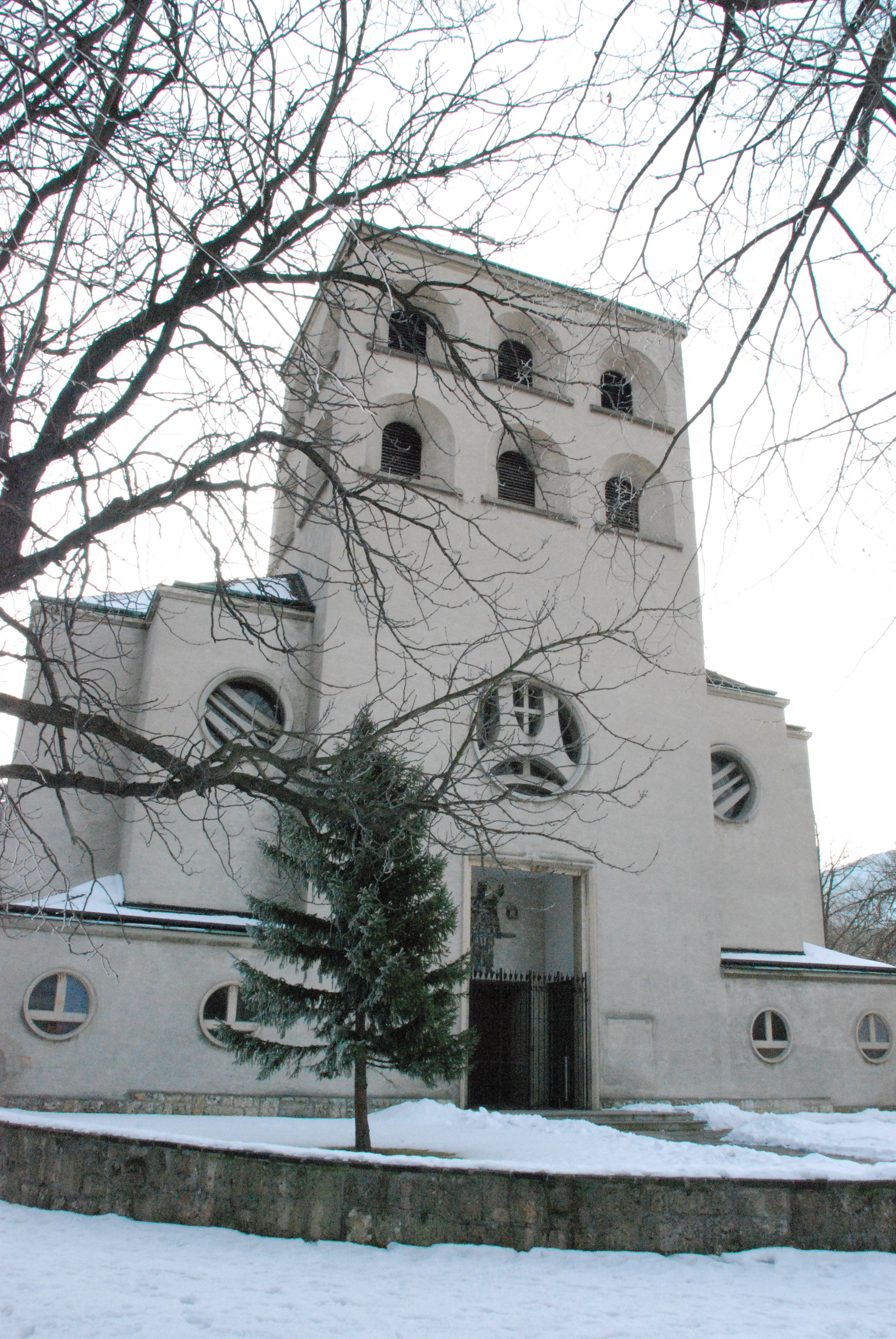 Kath. Pfarrkirche in Gloggnitz